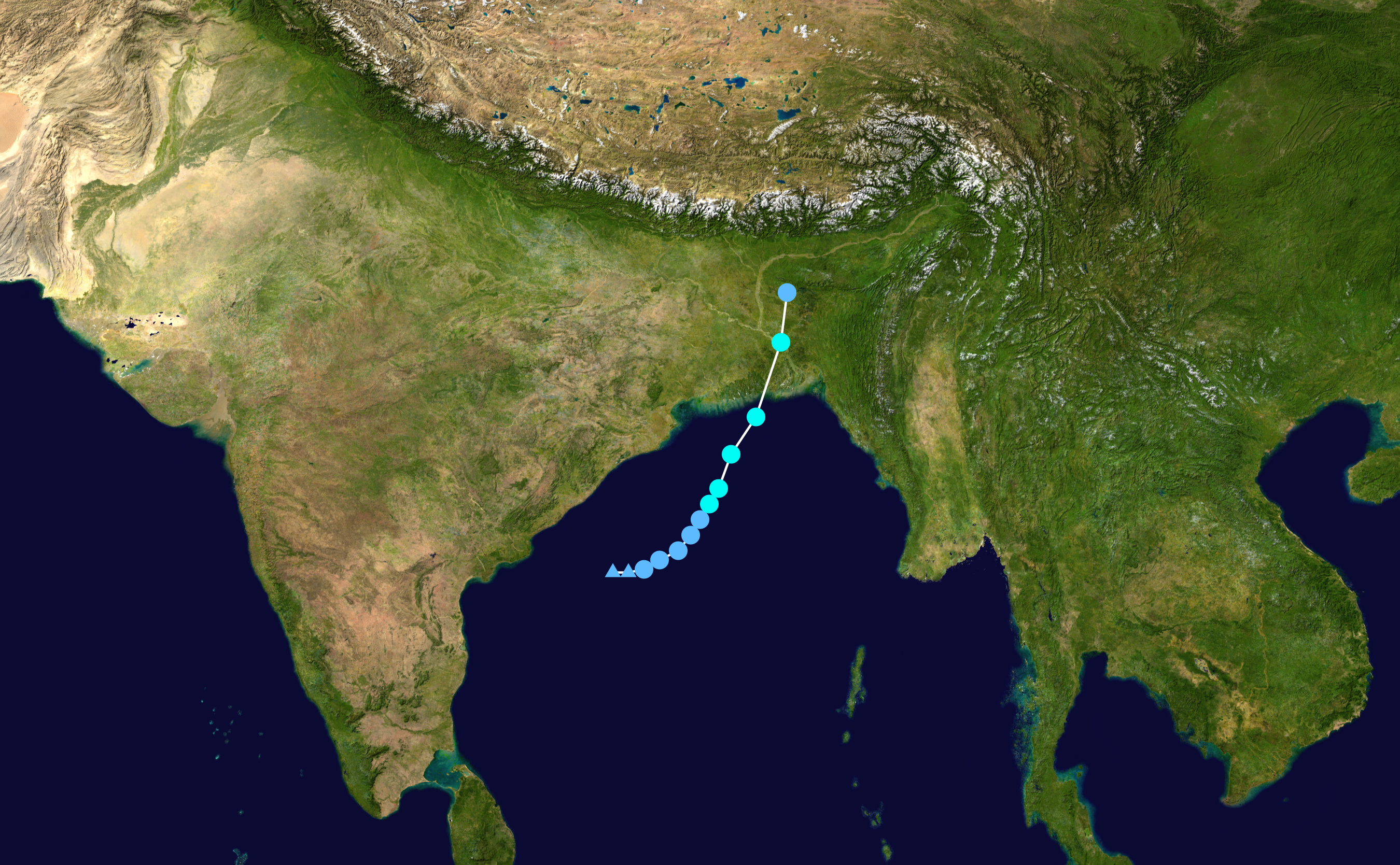 Track map of Cyclonic Storm Rashmi of the 2008 North Indian Ocean cyclone season. The points show the location of the storm at 6-hour intervals. The colour represents the storm's maximum sustained wind speeds as classified in the Saffir–Simpson scale (see below), and the shape of the data points represent the nature of the storm, according to the legend below. Saffir–Simpson scale Tropical depression≤38 mph≤62 km/h Category 3111–129 mph178–208 km/h Tropical storm39–73 mph63–118 km/h Category 4130–156 mph209–251 km/h Category 174–95 mph119–153 km/h Category 5≥157 mph≥252 km/h Category 296–110 mph154–177 km/h Unknown Storm type Tropical cyclone Subtropical cyclone Extratropical cyclone / Remnant low / Tropical disturbance / Monsoon depression